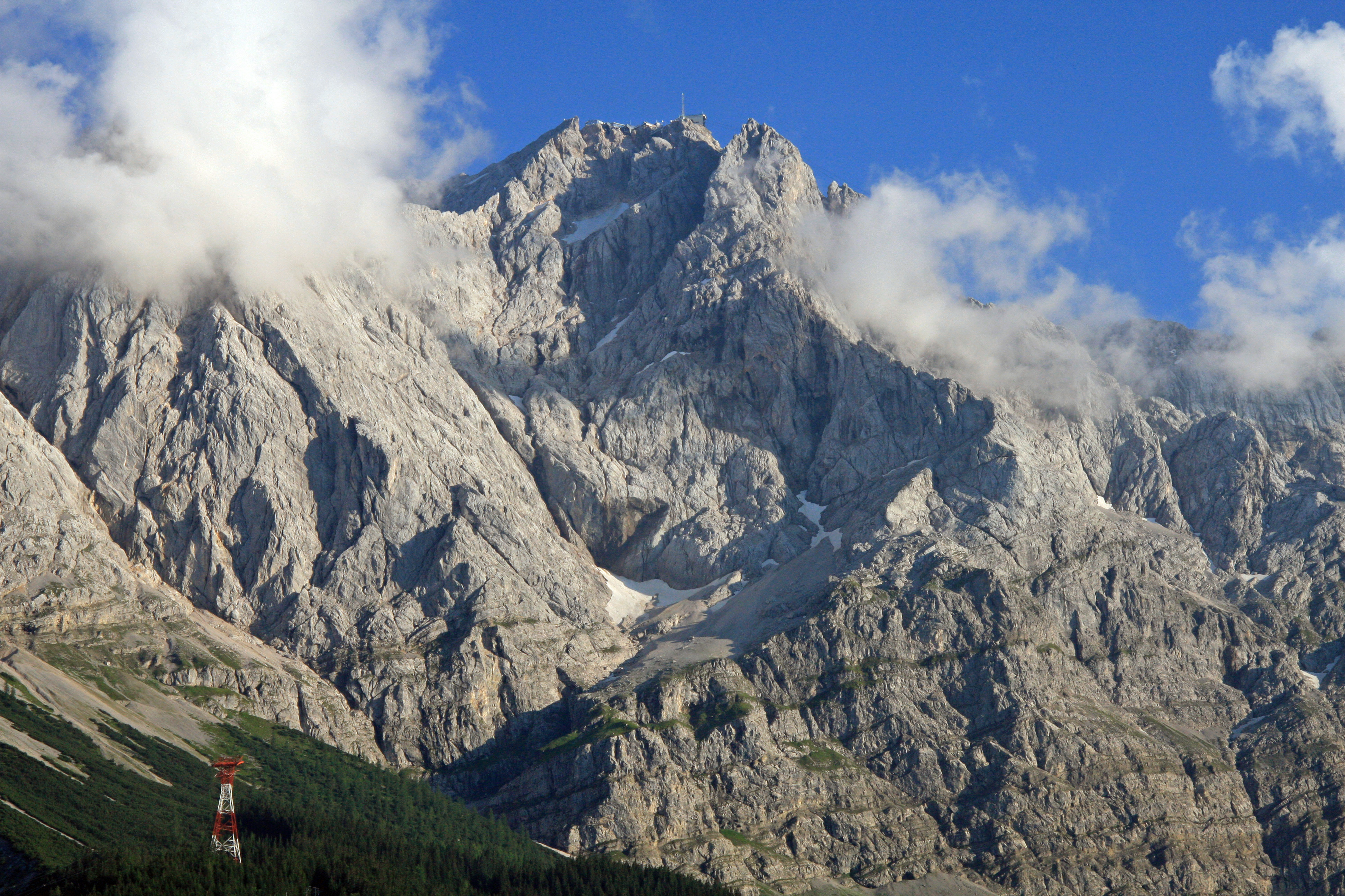 Zugspitze northface, photo taken from the lake Eibsee